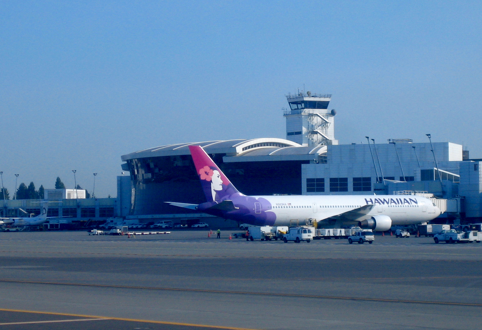 Hawaiian Airlines Boeing 767-300 at Seattle-Tacoma International Airport (SEA) in September 2009.